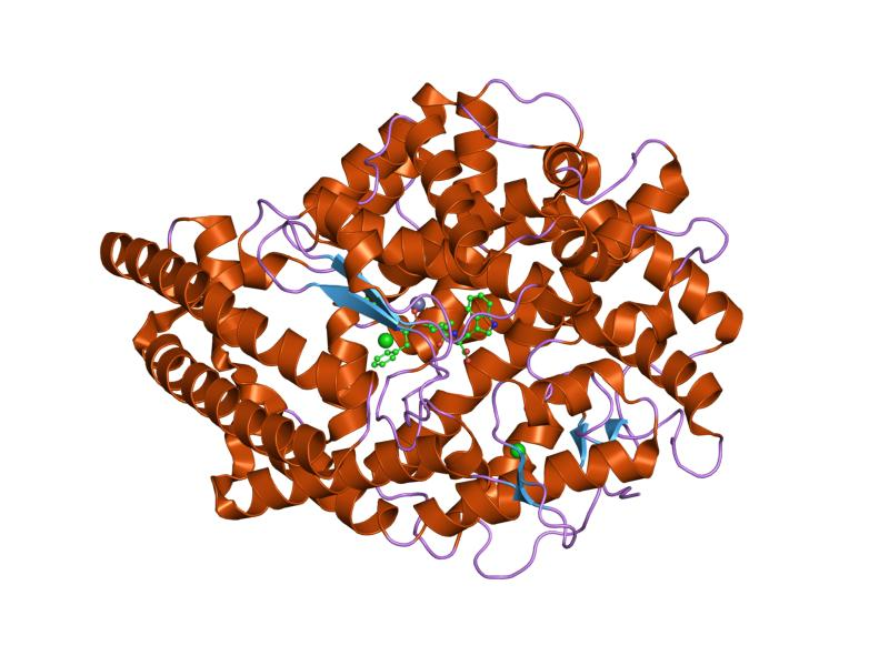 Cartoon representation of the molecular structure of protein registered with 2oc2 code.